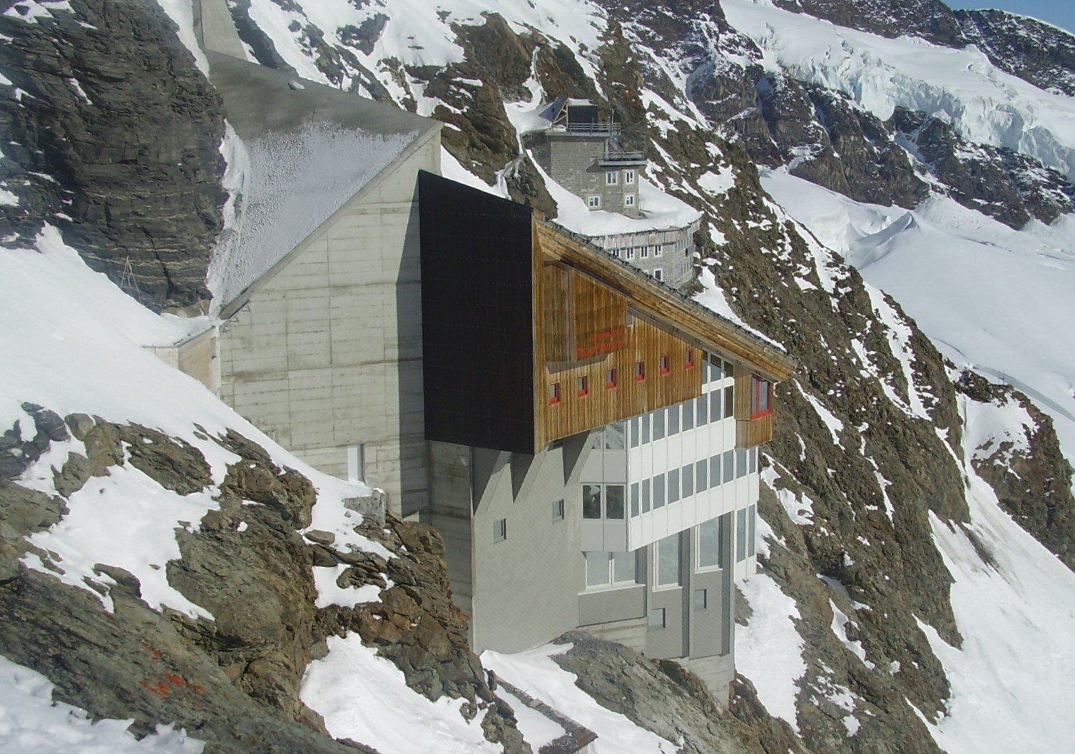 The Jungfraujoch station